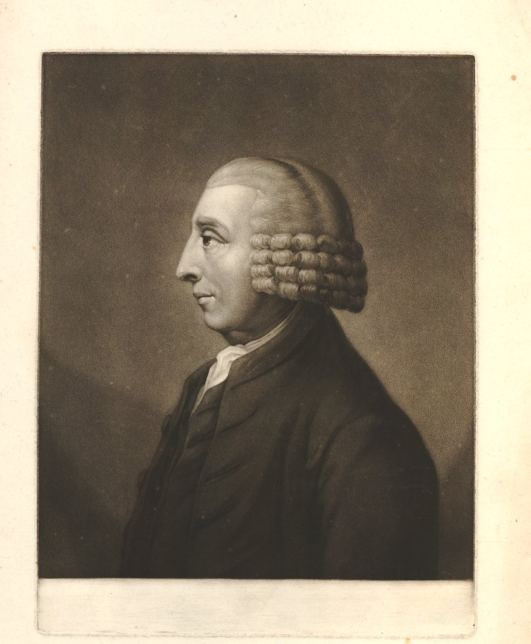 Portrait of David Barclay (1729 – 1809), English Quaker merchant and banker.